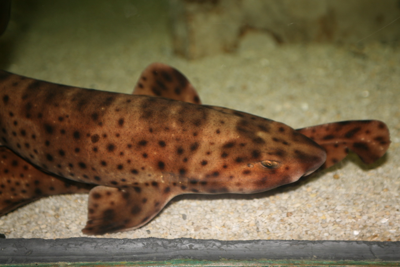 Swell shark (Cephaloscyllium ventriosum) at the National Aquarium, Washington D.C.